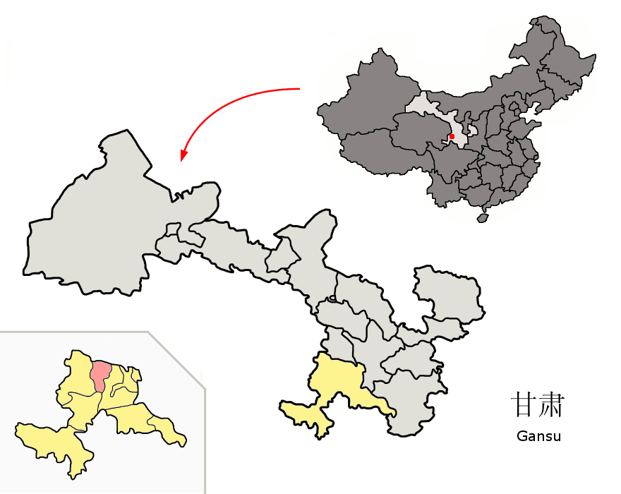 Location of Hezuo City (pink) and Gannan Prefecture (yellow) within Gansu province of China Map drawn in september 2007 using various sources, mainly : Gansu province administrative regions GIS data: 1:1M, County level, 1990 Gansu Counties map from